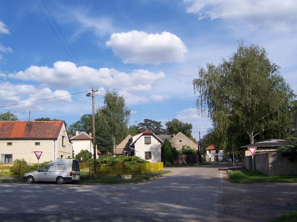 Břežany II